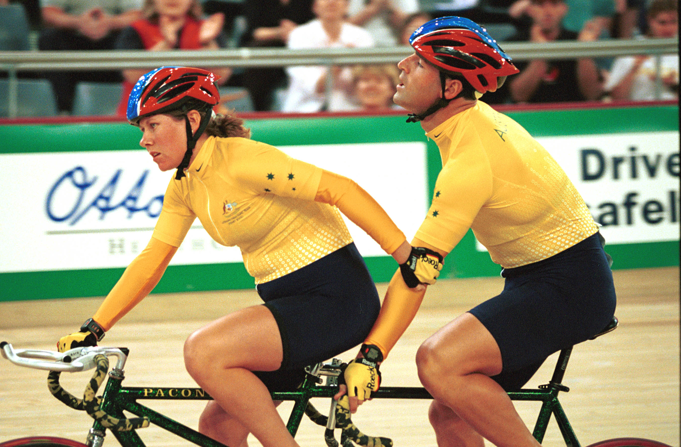 Australian track cyclist Kerry Modra (pilot) holds onto her husband Kieran Modra's arm during the 1km Time Trial at the 2000 Sydney Paralympic Games